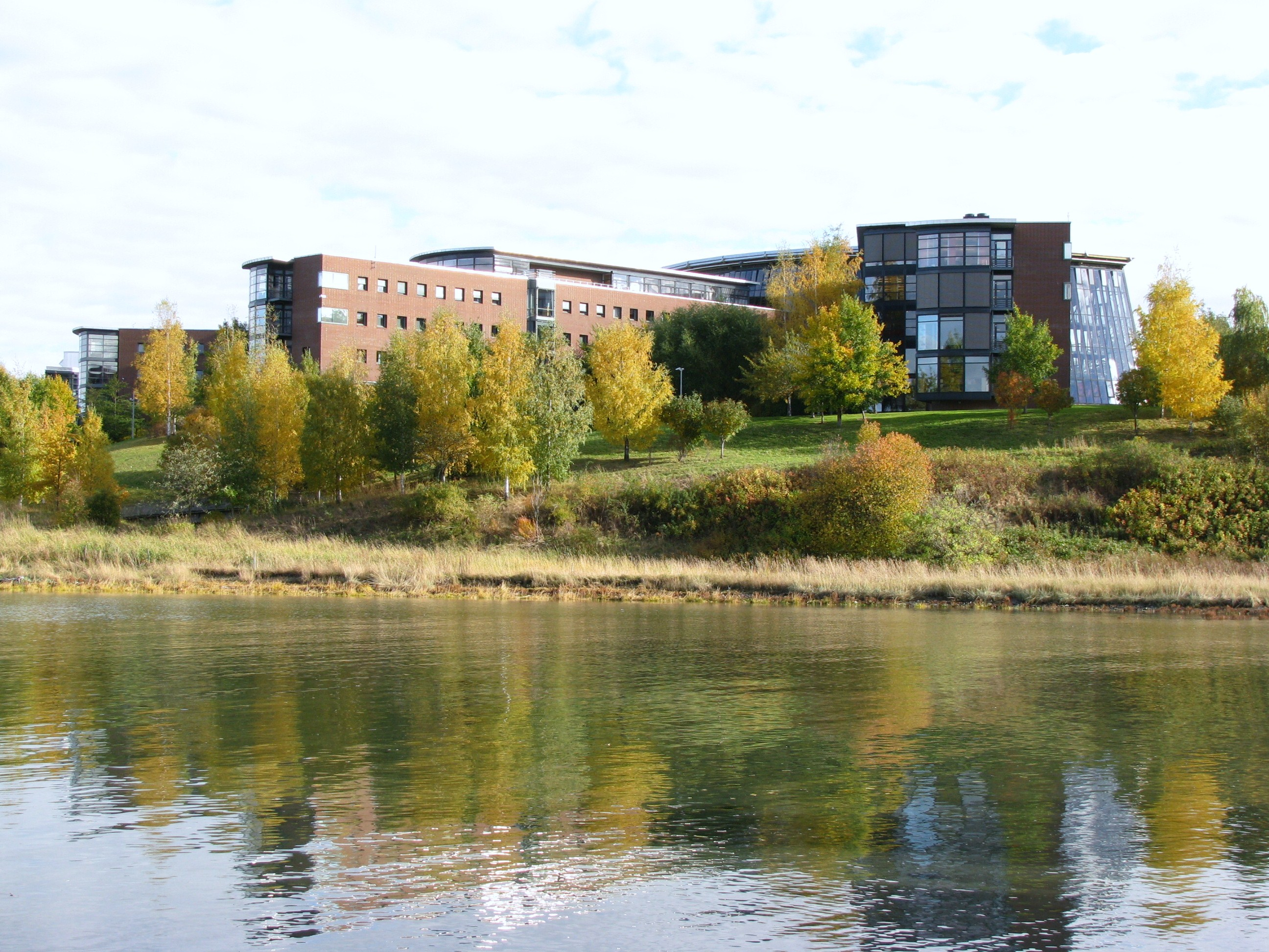 Statoil building at Rotvoll, Trondheim, Norway. Part of the research department in Statoil. Statoil på Rotvoll, Trondheim.